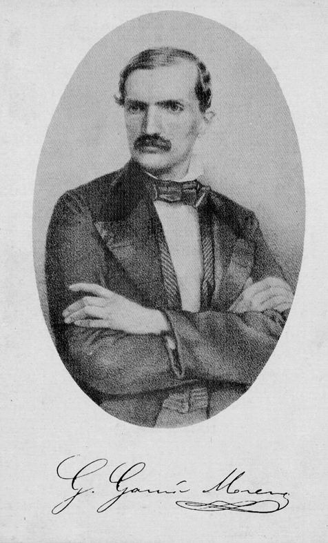 Dr. Gabriel García Moreno, president of Ecuador 1859–1865 and 1869–1875